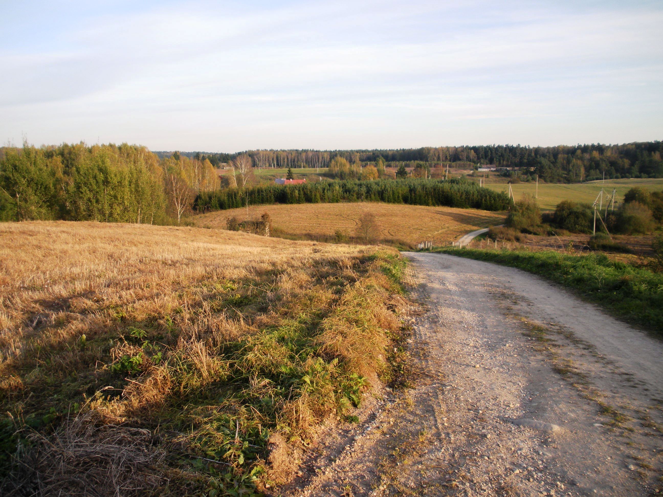 Hill of Karvelis (aka astronomer Šmukštaras), Ažuožeriai, Anykščiai District, Lithuania